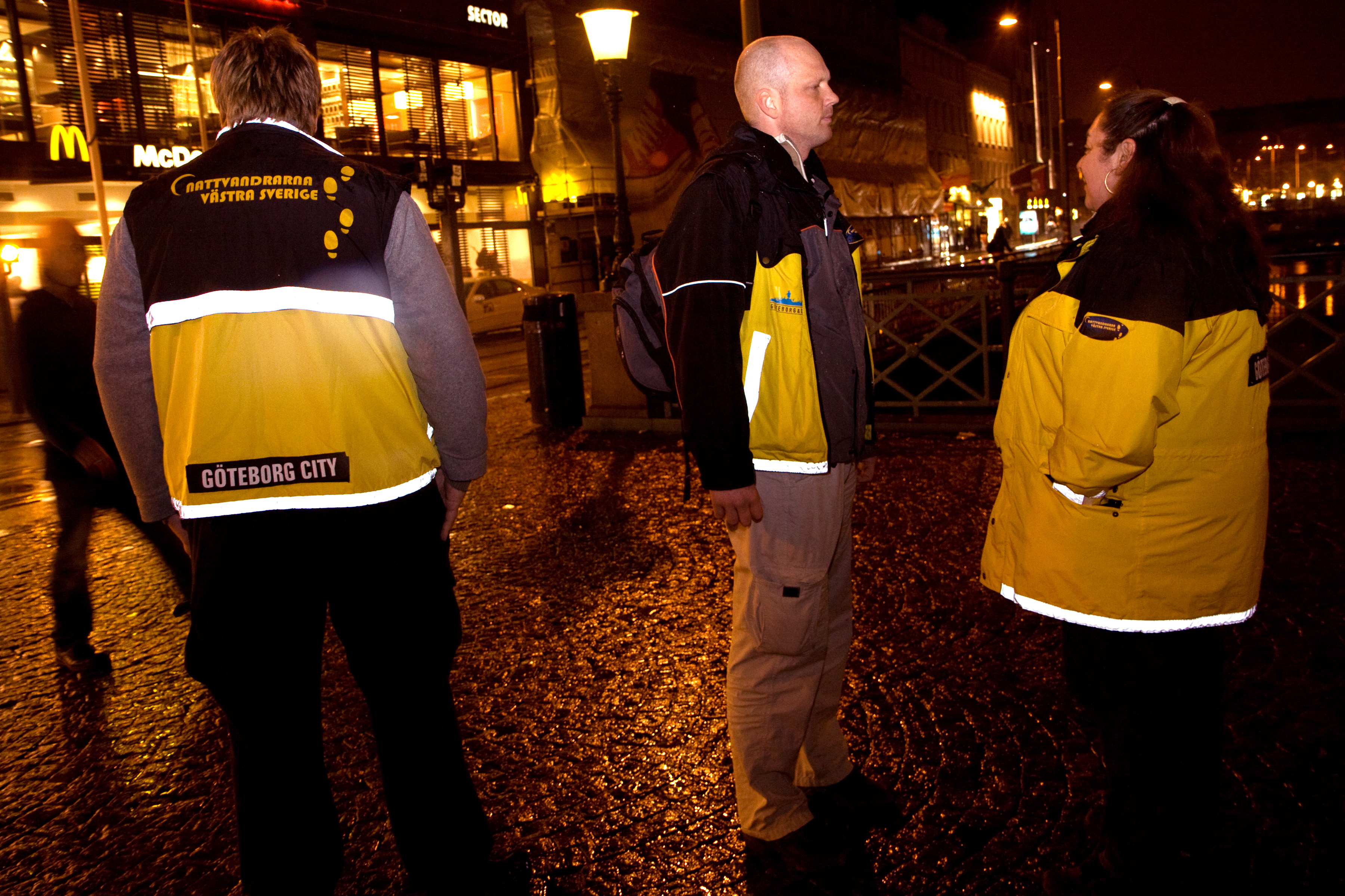 Parents walking town at night to help young kids from getting in trouble